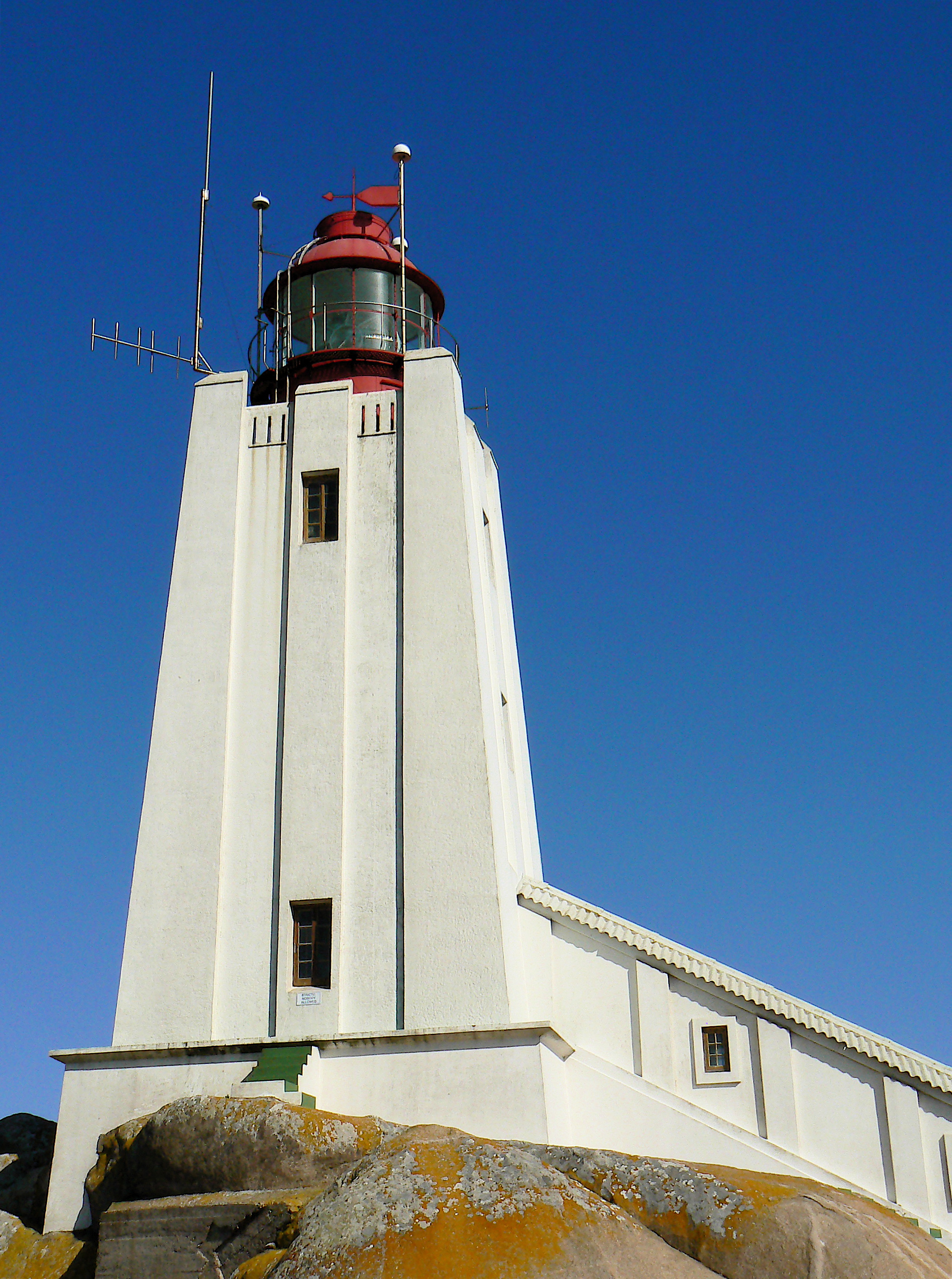 Please add photo to Cape Columbine Lighthouse, South Africa, page.